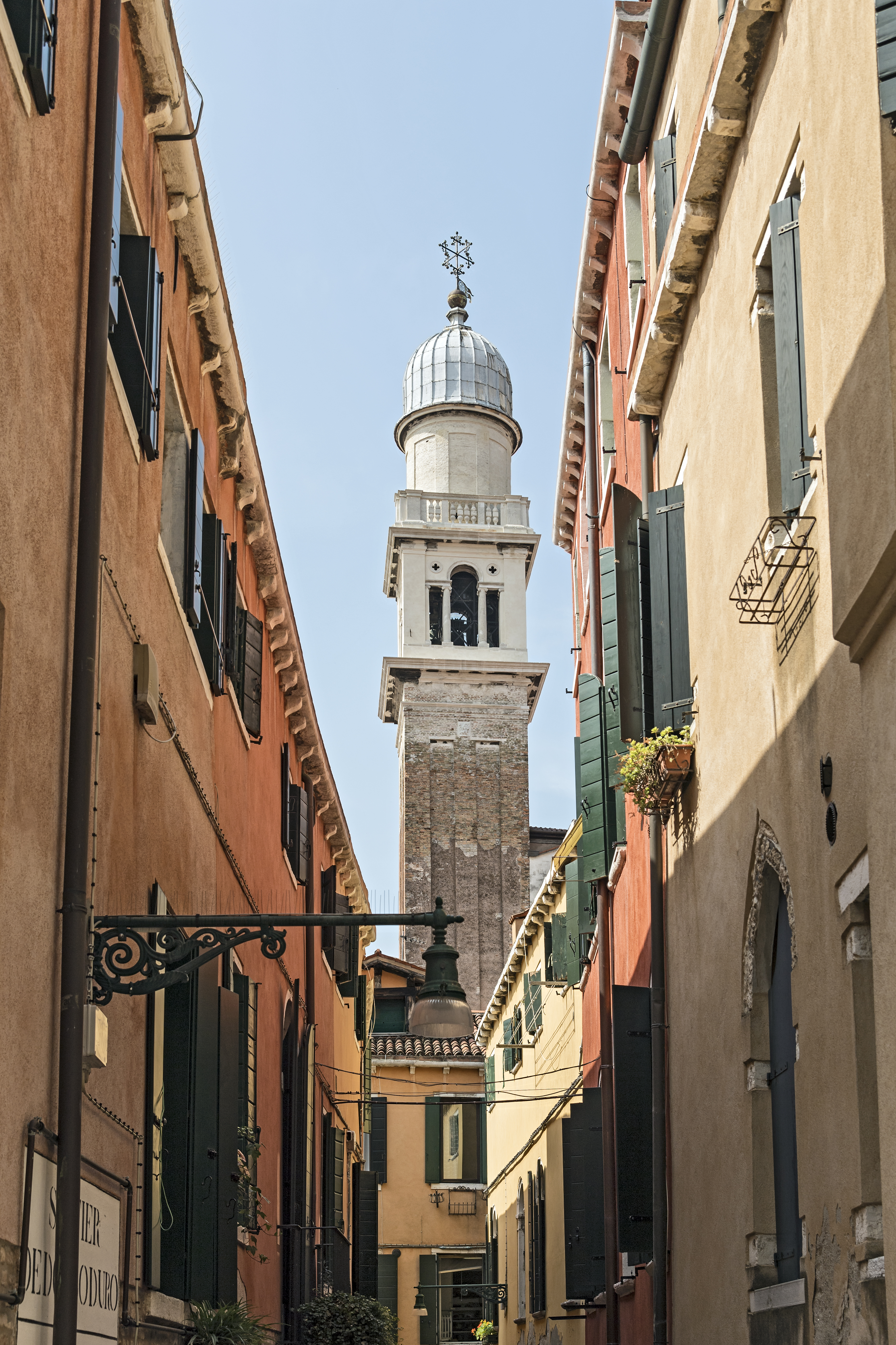 San Pantalon - The bell tower seen from the Calle della Scuola.